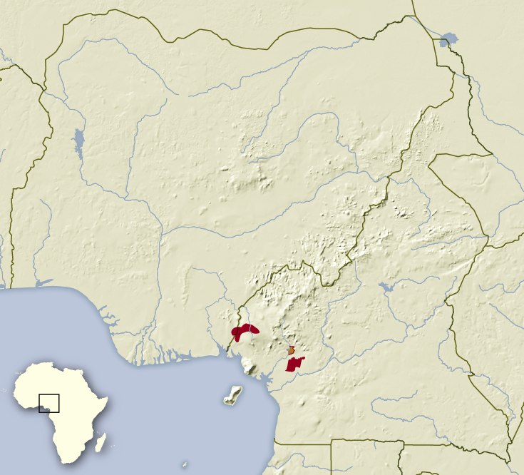 Distribution map of Preuss's red colobus; red: extant; orange with red border: possibly extant